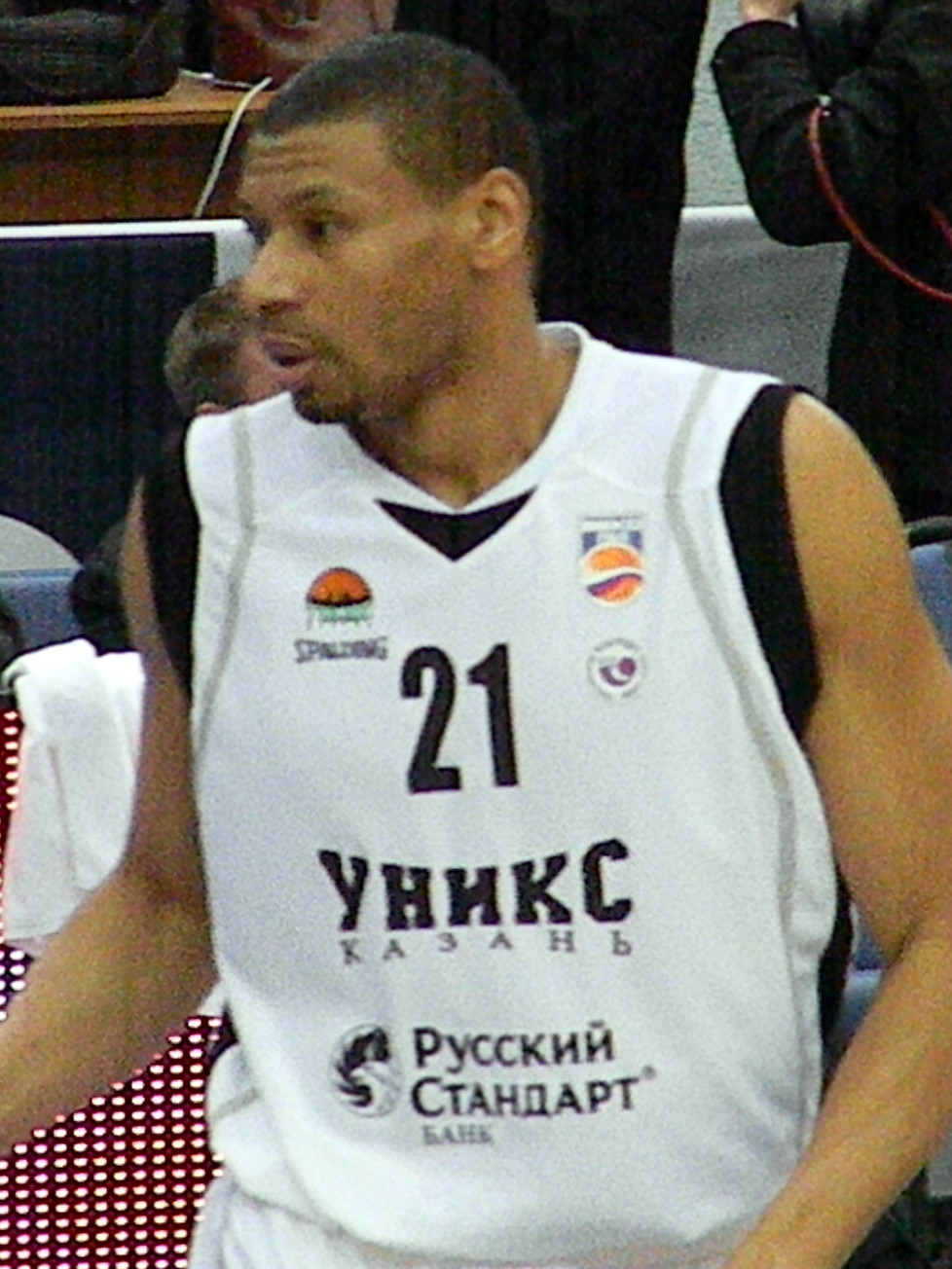 Kelly McCarty, american and russian Basketball player, at all-star PBL game 2011